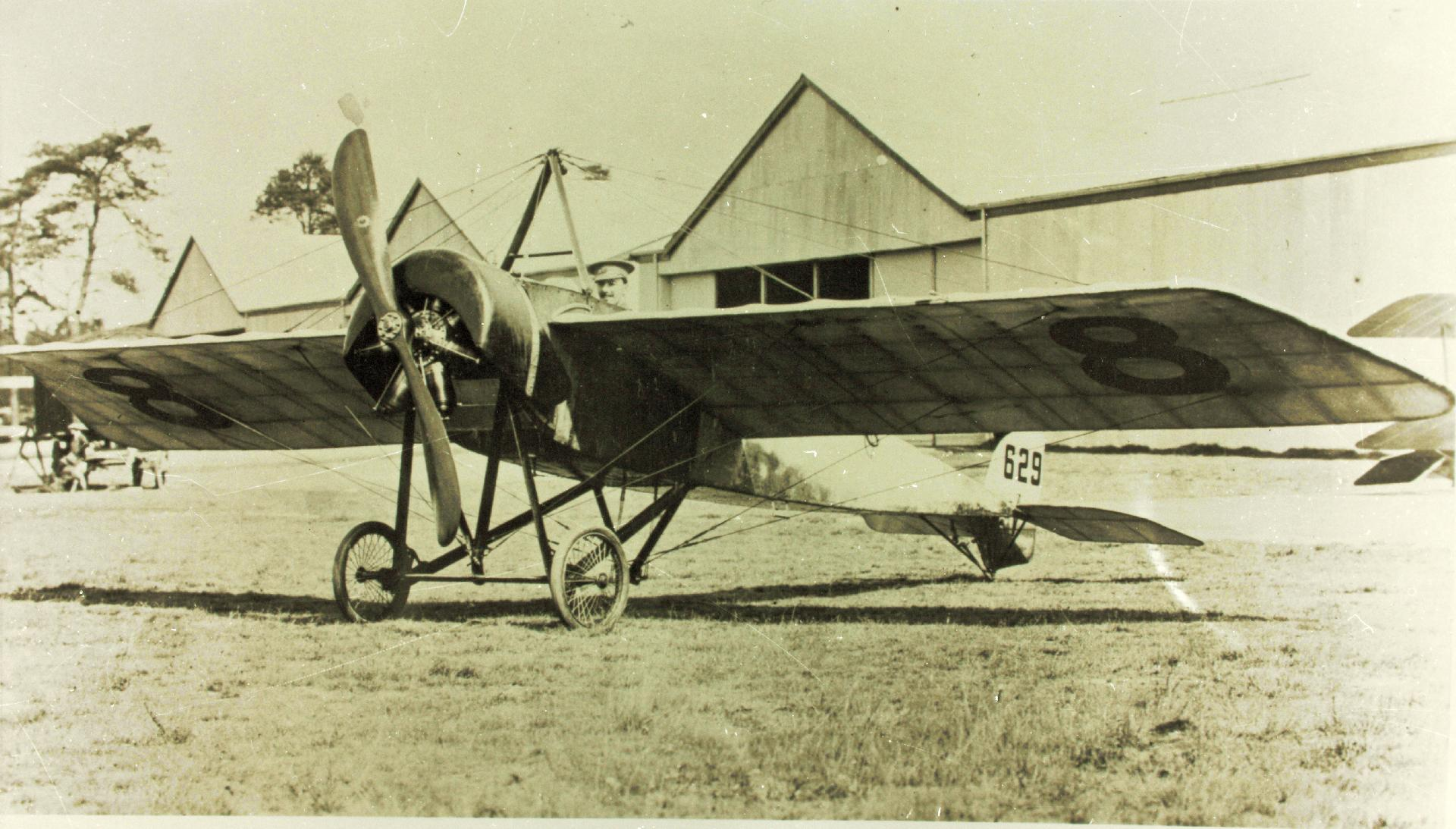 Morane-Saulnier H with RFC number on rudder